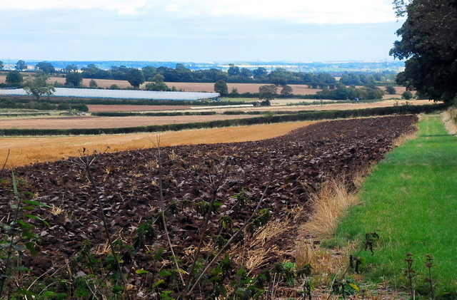 Ploughing in progress Freshly ploughed land near North Wheatley. An area of polythene sheeting can be seen in the middle distance covering strawberry plants.